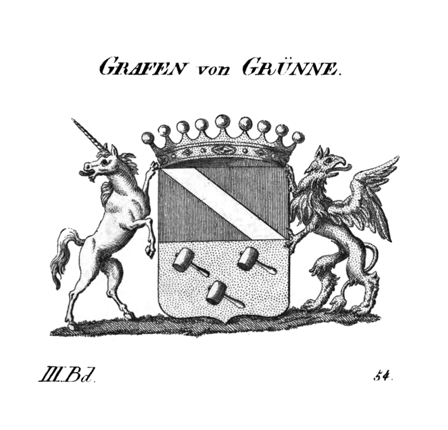 Coat of arms of Gruenne (Counts, Nederlands, Austria)